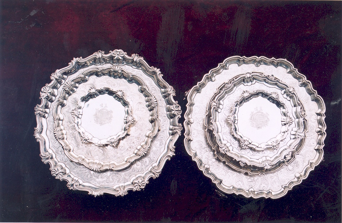 Seven Georgian silver salvers with the Bisse and Challoner crests, and the arms of Bisse impaling Tottenham added c. 1812. The salvers were manufactured by John Tuite (1732), Robert Abercrombie (1736), James Schruder (1740), William Peaston (1745), Peter Taylor (1747) and 1750-Henry Morris (pair). With the ARMS of Bisse impaling Tottenham added c.1812, with crests of Challoner and Bisse. (The title of the file was renamed when it was transferred from English Wikipedia. It should read Bisse-Challoner arms on seven silver salvers rather than 'crests', as this new titling implies a mistaken understanding of the term 'crest'.Rodolph2 (talk) 01:12, 14 May 2014 (UTC))